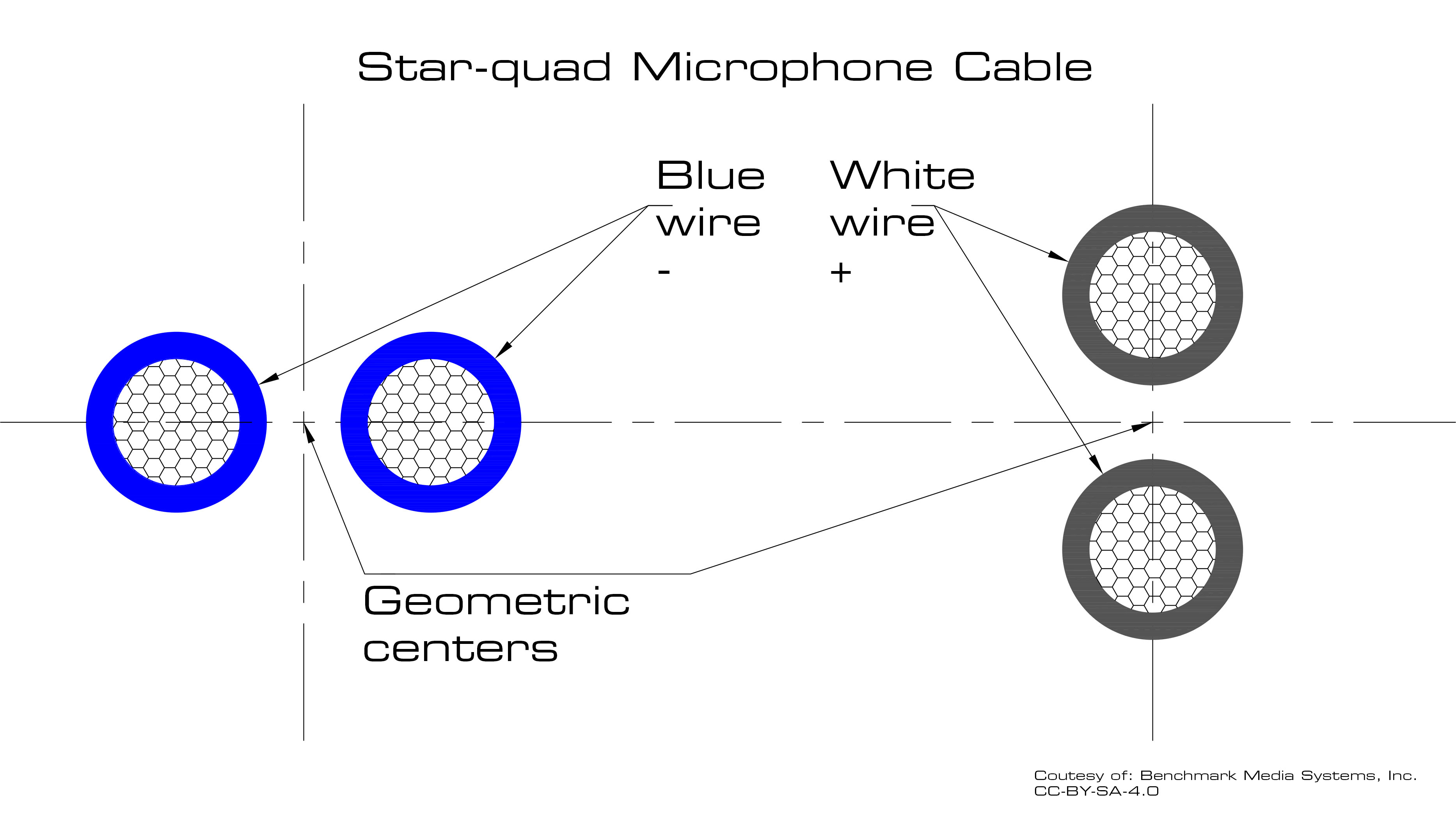 Exploded view of star-quad microphone cable showing pairs of wires used for each leg of the balanced circuit.